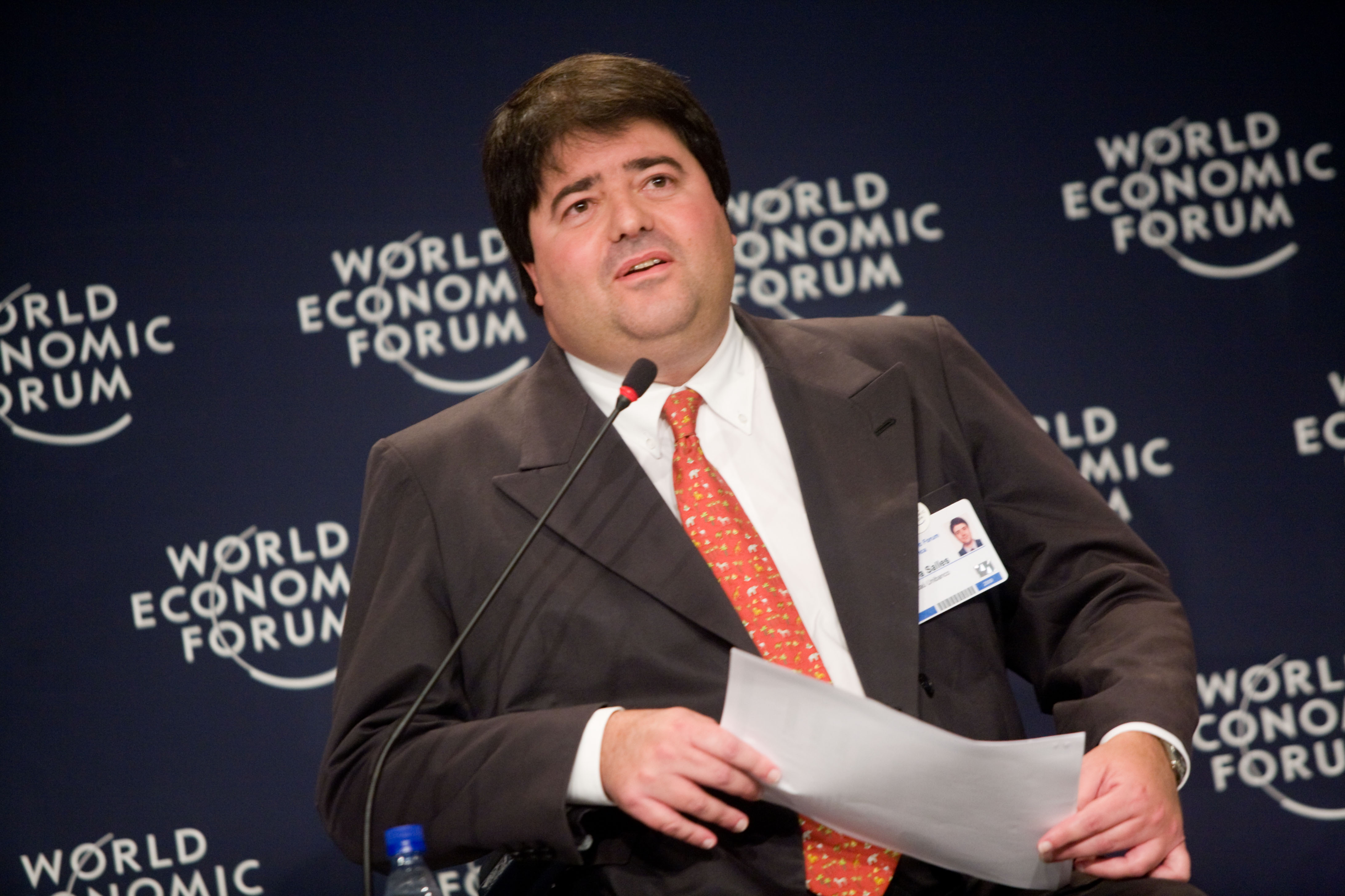 Pedro Moreira Salles, Brazilian banker, speaking at the World Economic Forum on Latin America 2009 in Rio de Janeiro, Brazil.